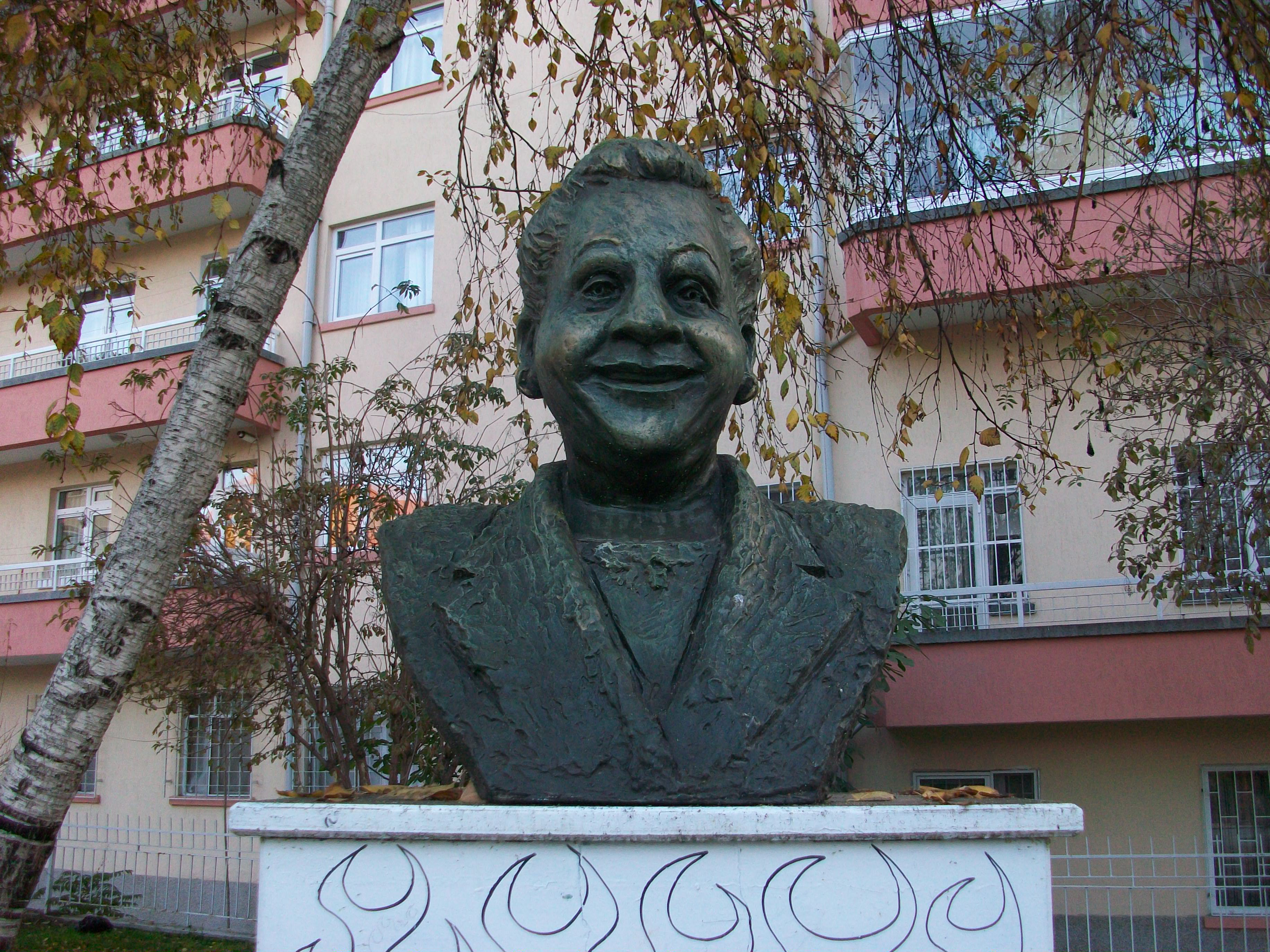 Adile Naşit Park in Çankaya.